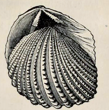 Neotrigonia margaritacea (Lamarck, 1804) ; Trogoniidae